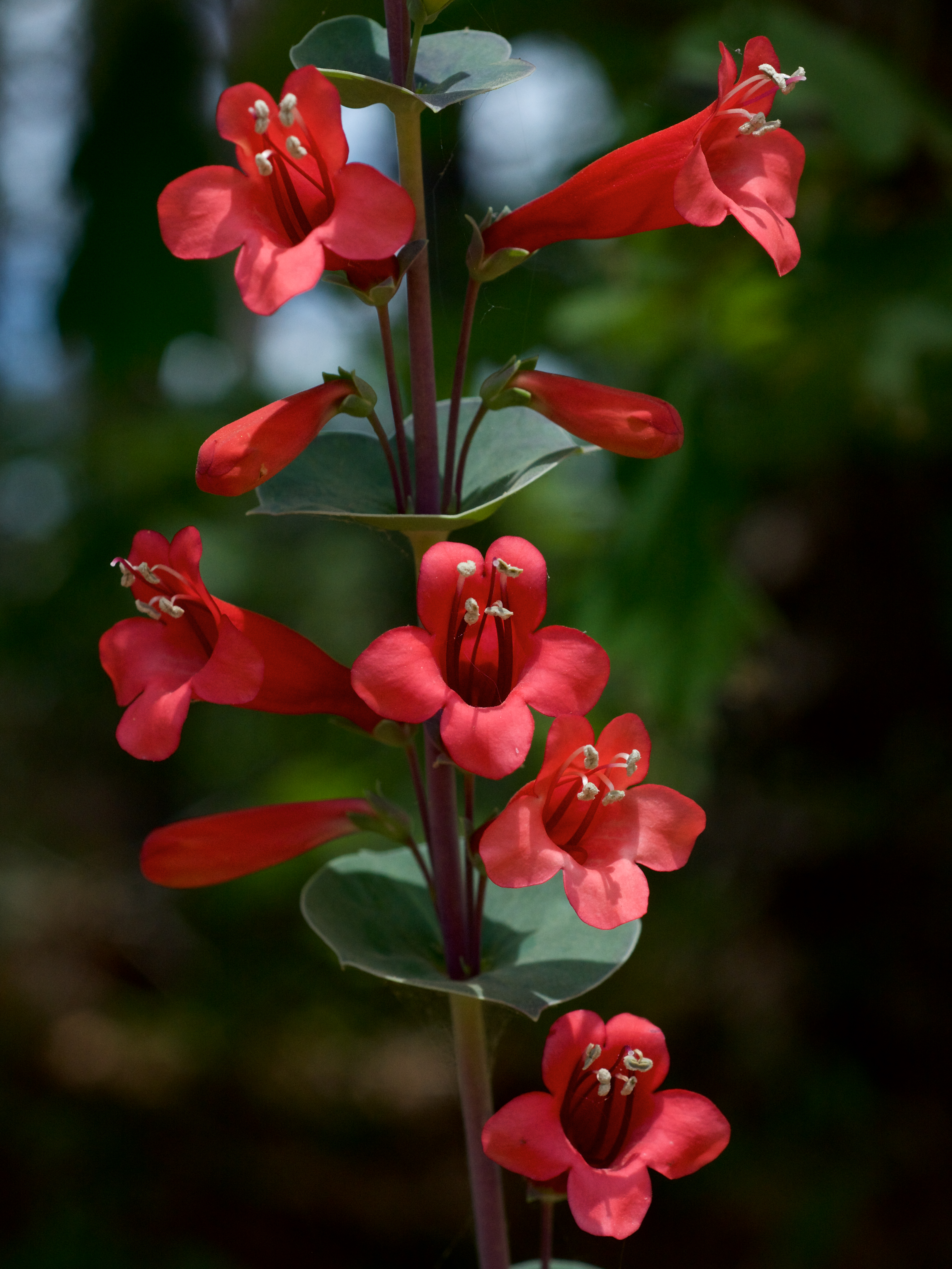 Species from Arkansas, Louisiana, Texas, Oklahoma Common name: Scarlet beardtongue Photographed along County Road 423, Nevada County, Arkansas